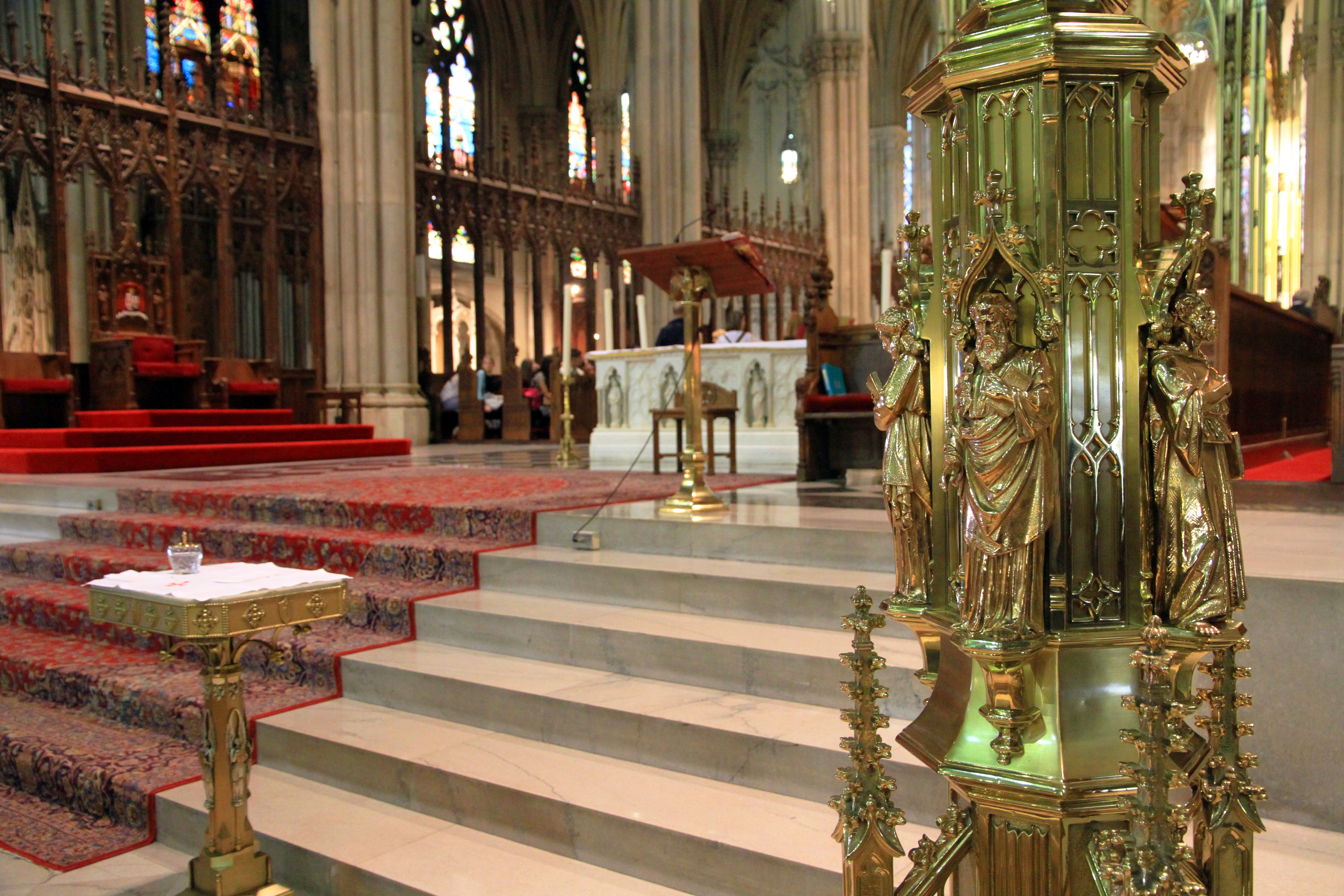 St. Patrick's Cathedral